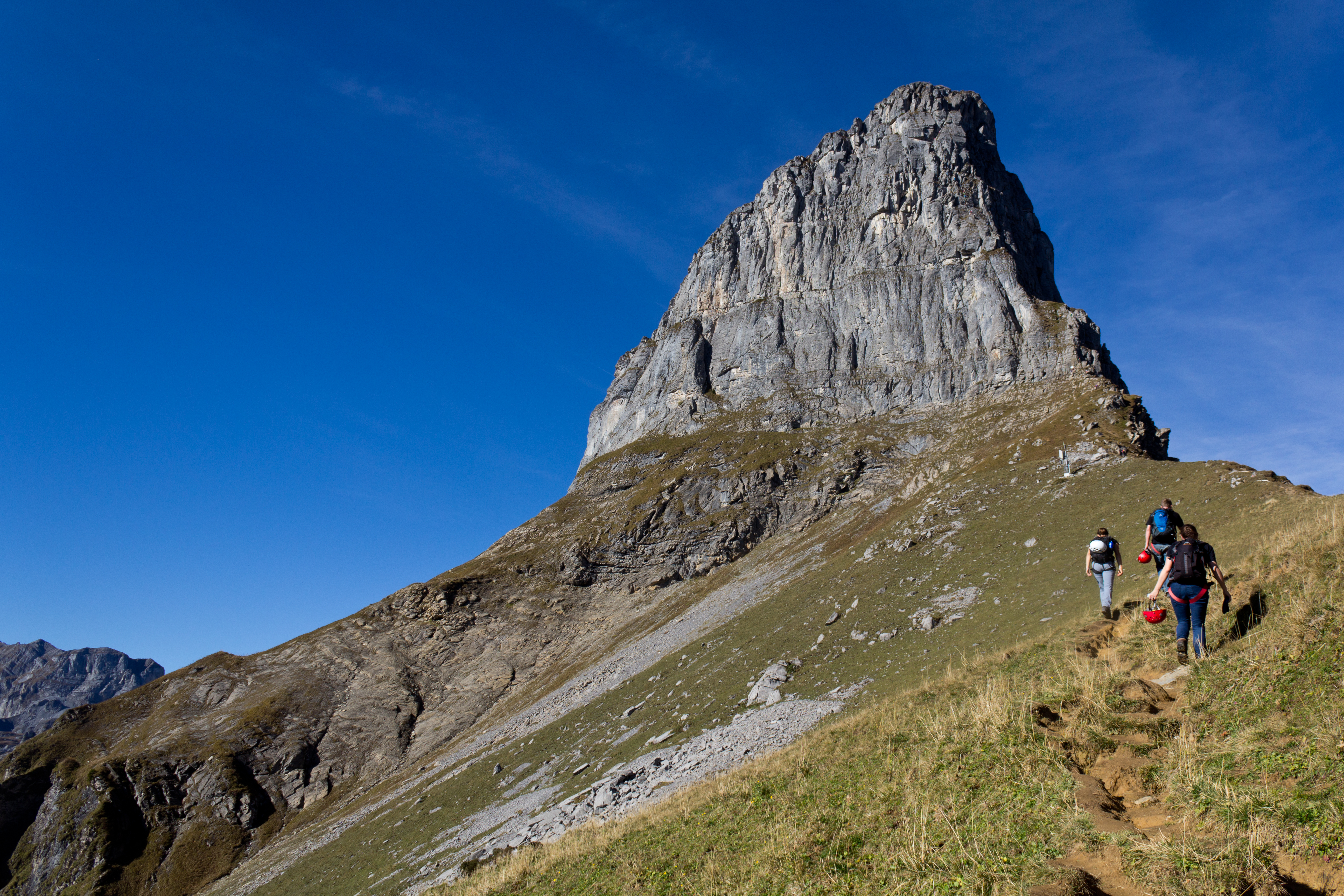 Climbers hiking to the Leiteregg, the entry point to the Braunwald Via Ferrata.